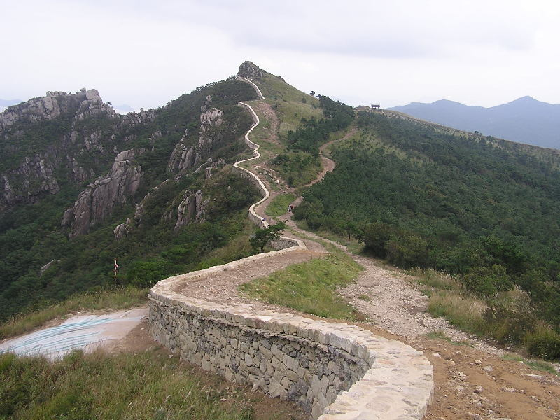 Geumjeong Fortress, Busan, South Korea